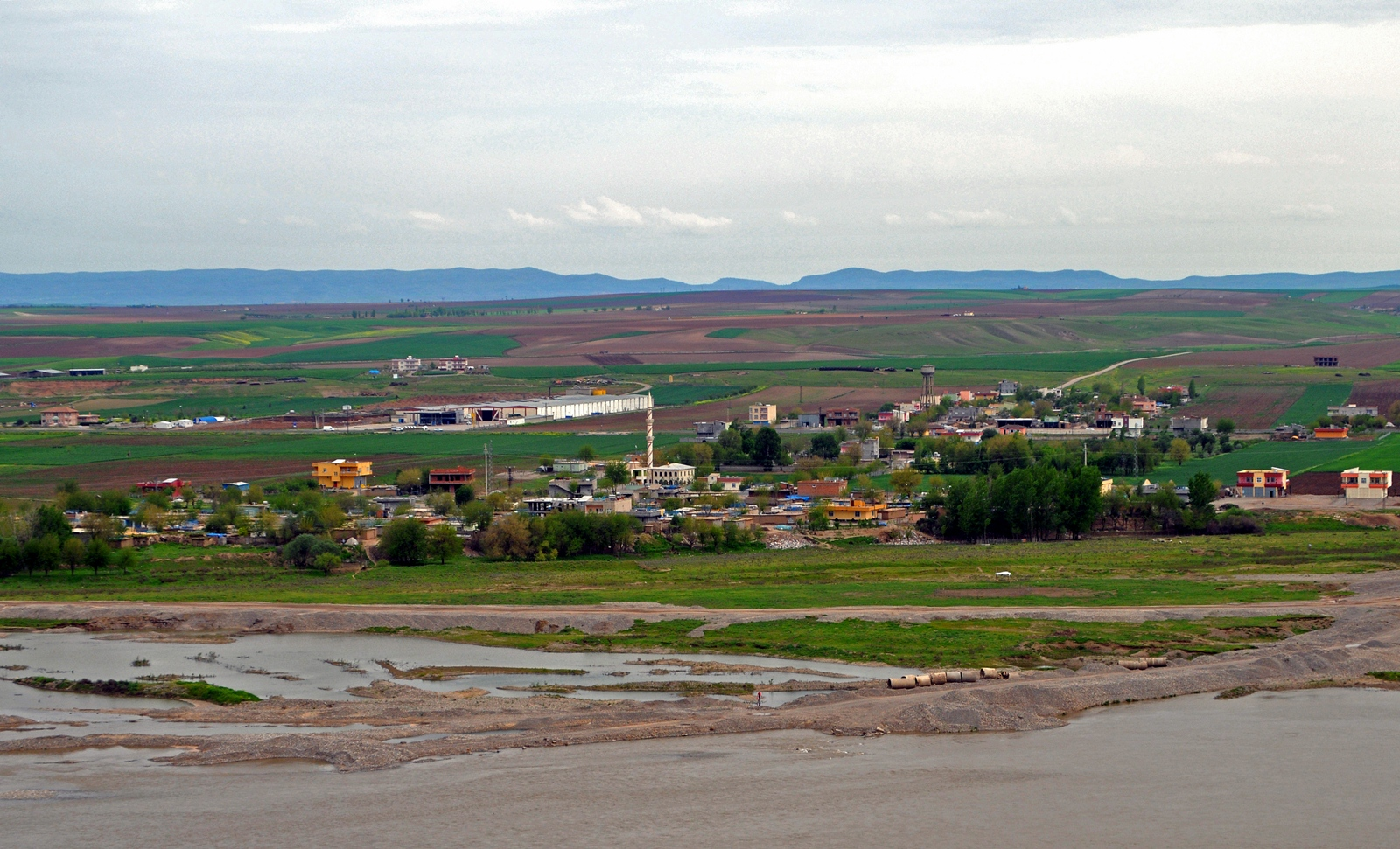 Köseli, Bismil Kurdî: Gundê Bismilê